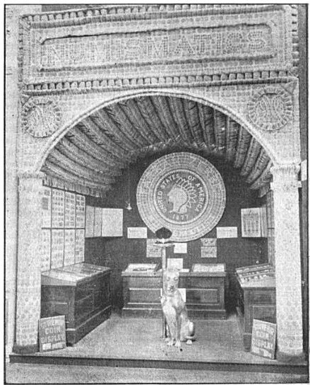 Farran Zerbe's "Money of the World" exhibit at the Portland, Ore. Lewis and Clark Exposition, 1905